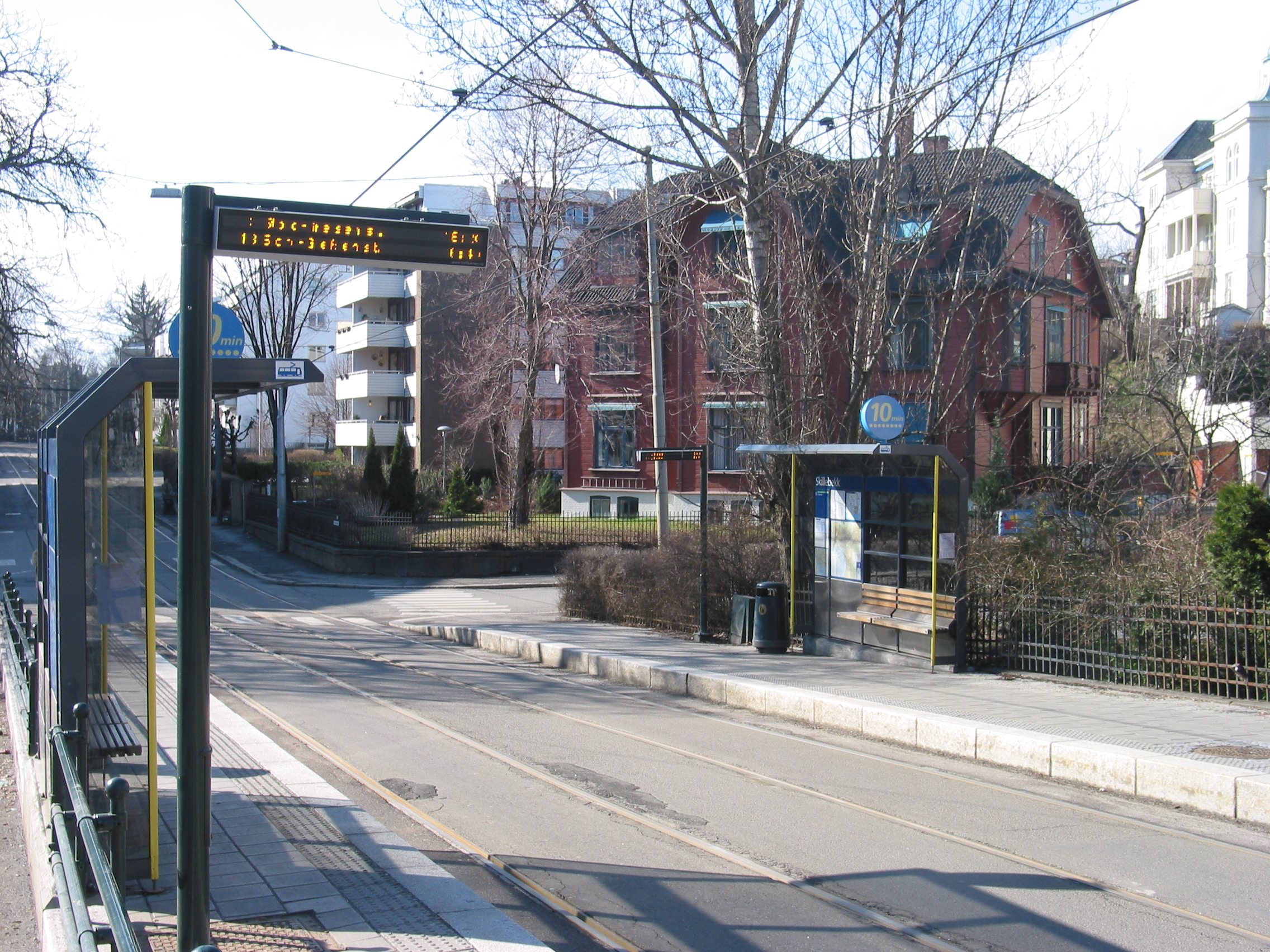 Skillebekk station in Oslo, Norway. Looking west.